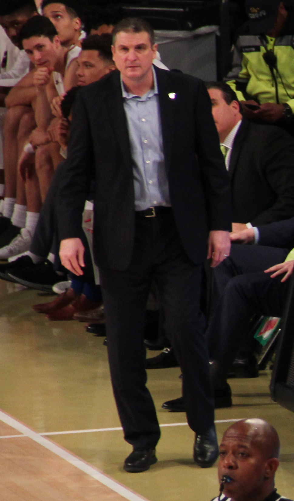 Jim Christian and Josh Pastner, March 2019